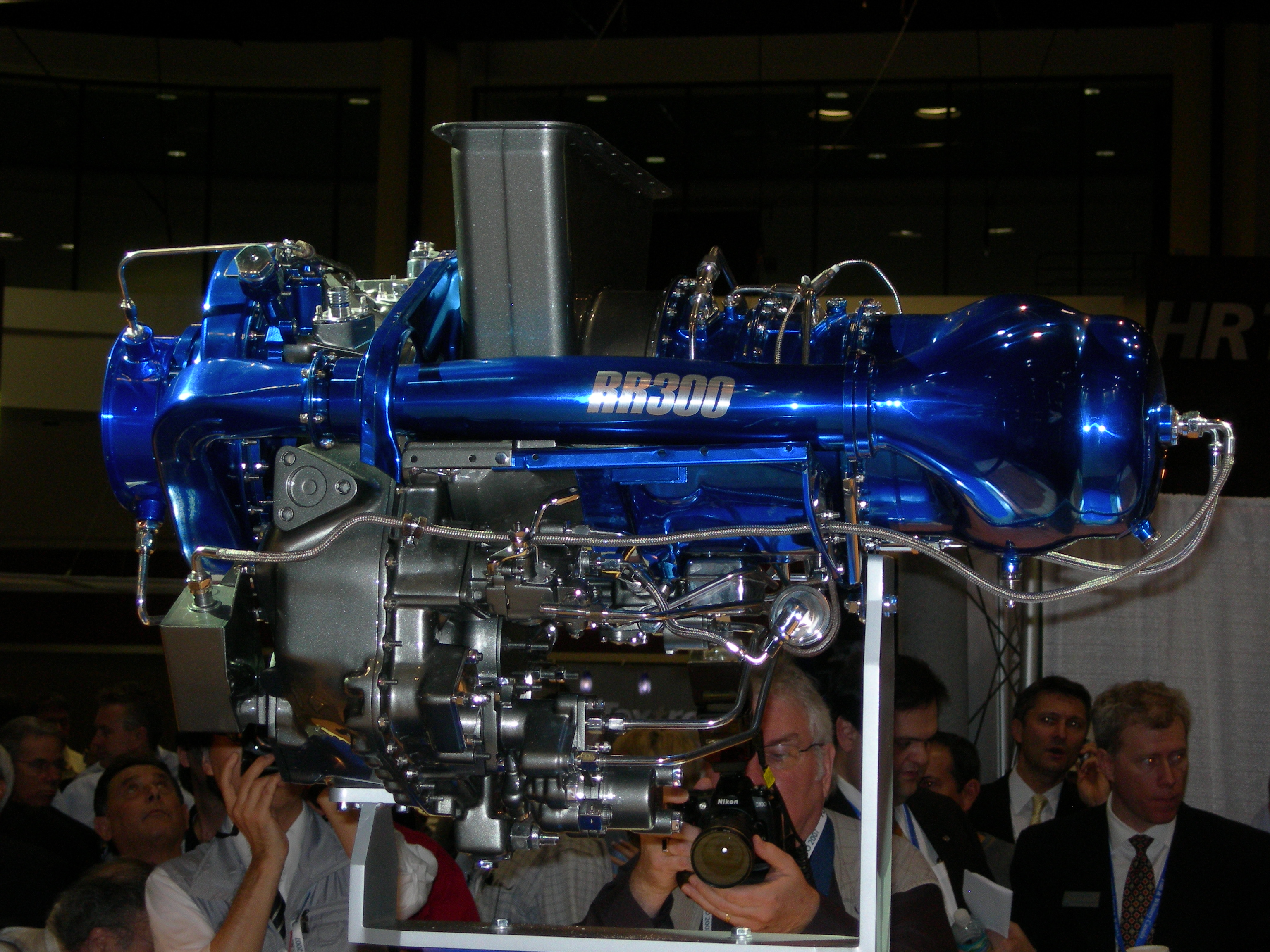 RR300 Engine unveiled at HeliExpo 2007. Photo by Alan Barclay.